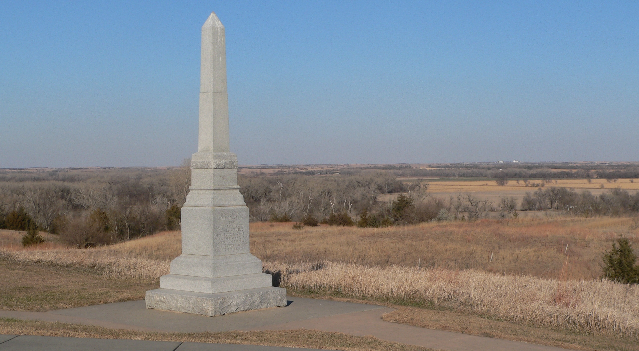 1901 monument at Pawnee Indian Museum State Historic Site, located near Republic, Kansas. The site is listed in the National Register of Historic Places.